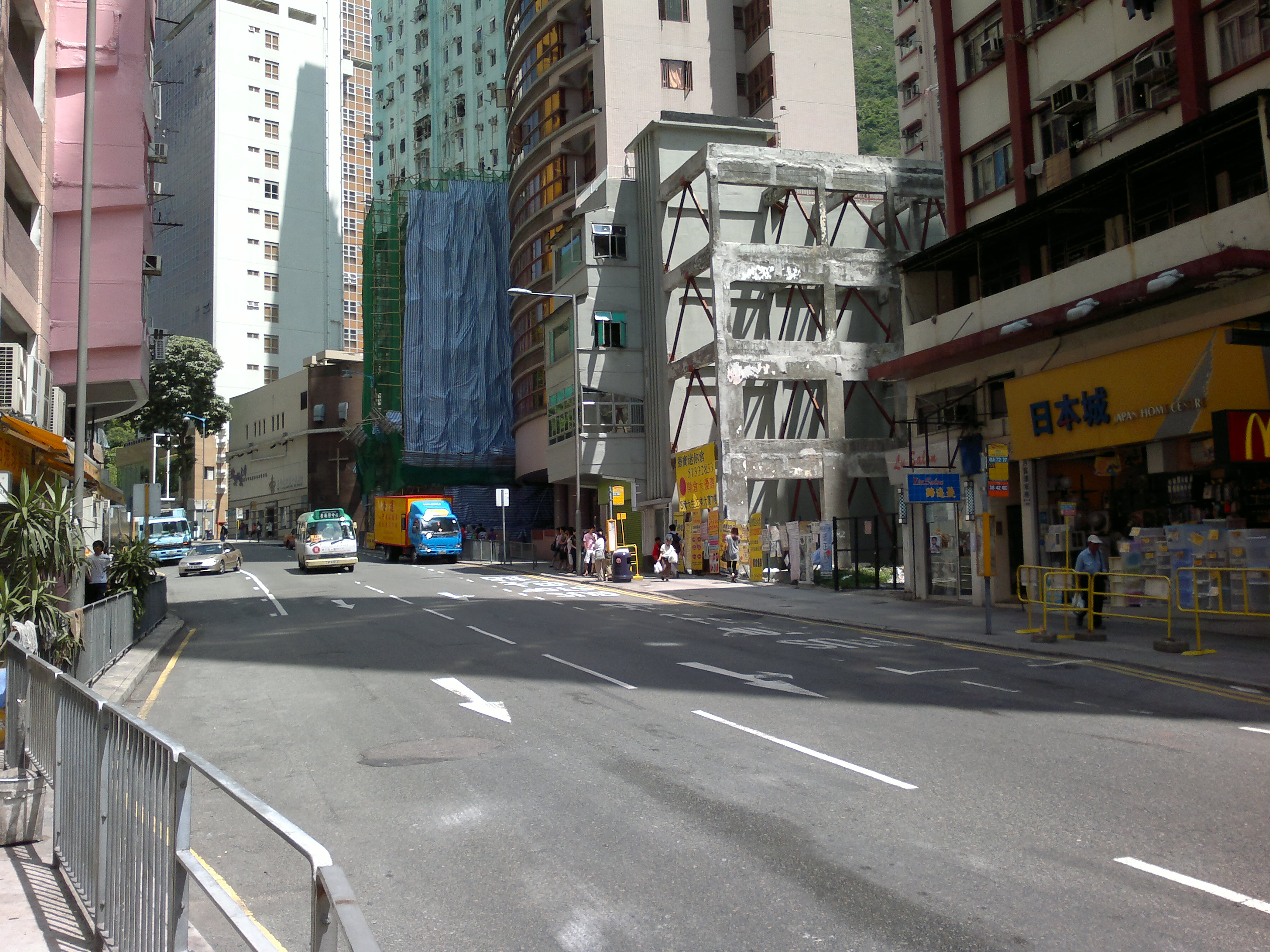 Shek Pai Wan Road near Tin Wan Street